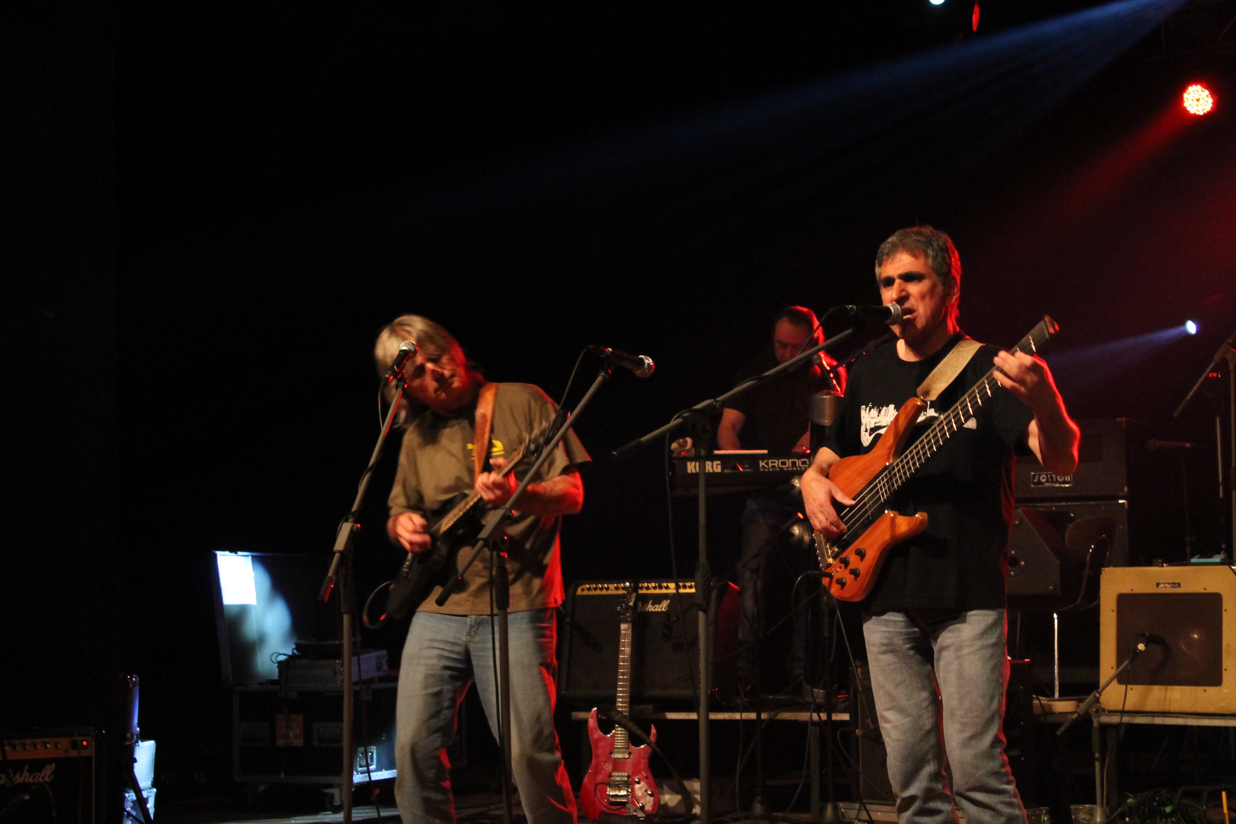 Pavel Váně, guitarist and vocalist of czech rock band Progres 2, and Emanuel Sideridis, former member of czech rock band Progres 2, Brno, Czech Republic - OpenStreetMap(Info)